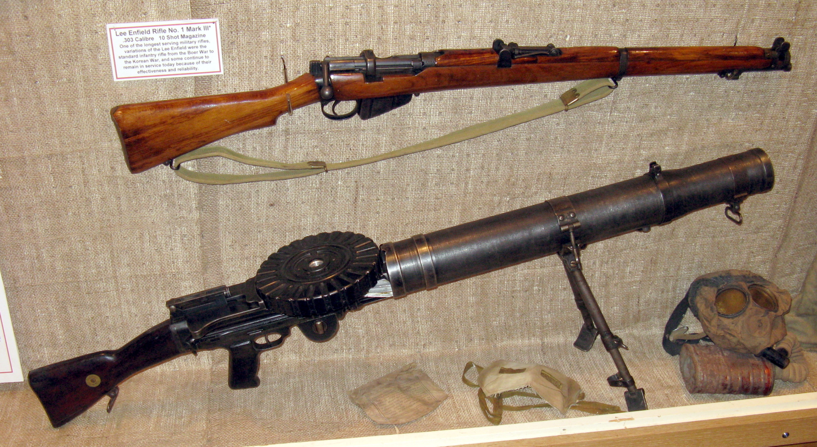 Lewis gun displayed in Elgin Military Museum in St. Thomas, Ontario